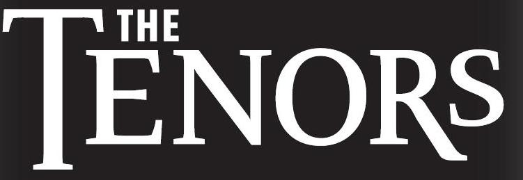 The Tenors